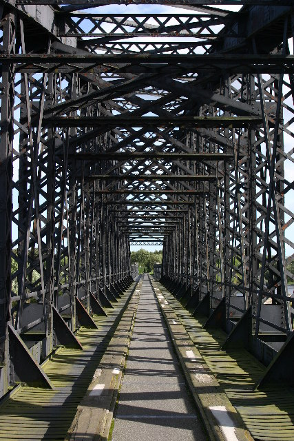 Railway bridge over the river Spey. Built by the Victorians; made redundant by Beeching in 1965 and now part of the Moray Coastal Trail